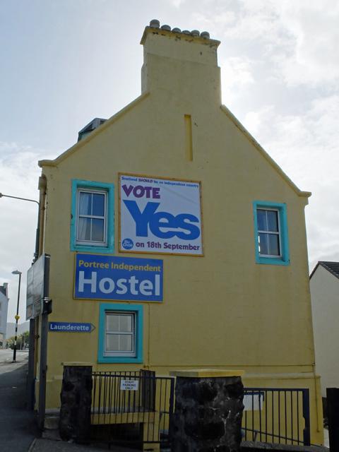 Yes Scotland 2014 at the Portree Independent Hostel